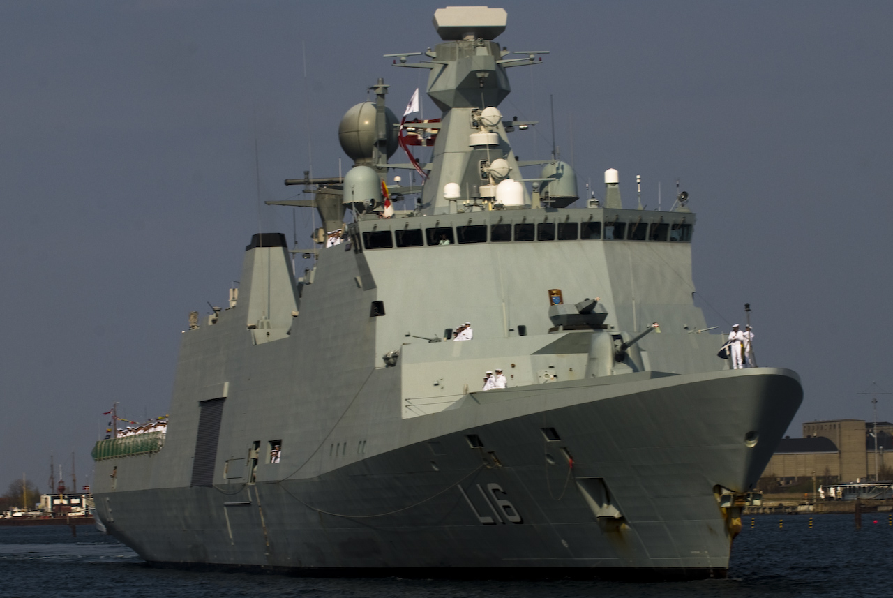 Danish FSS Absalon (L16) arriving in Copenhagen, after a 8 month tour in the Horn of Africa-area.